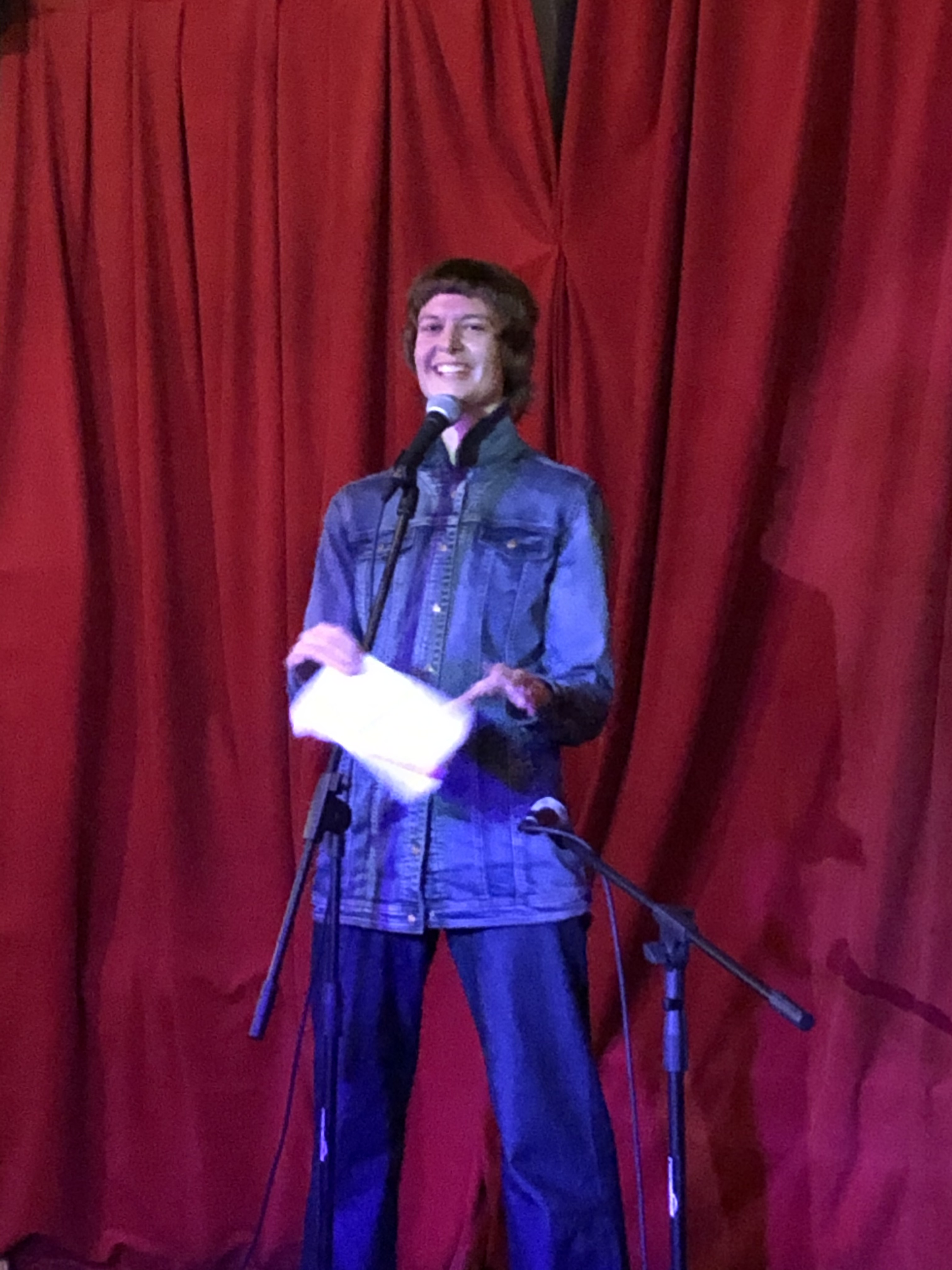 Photo of Tanya Marquardt